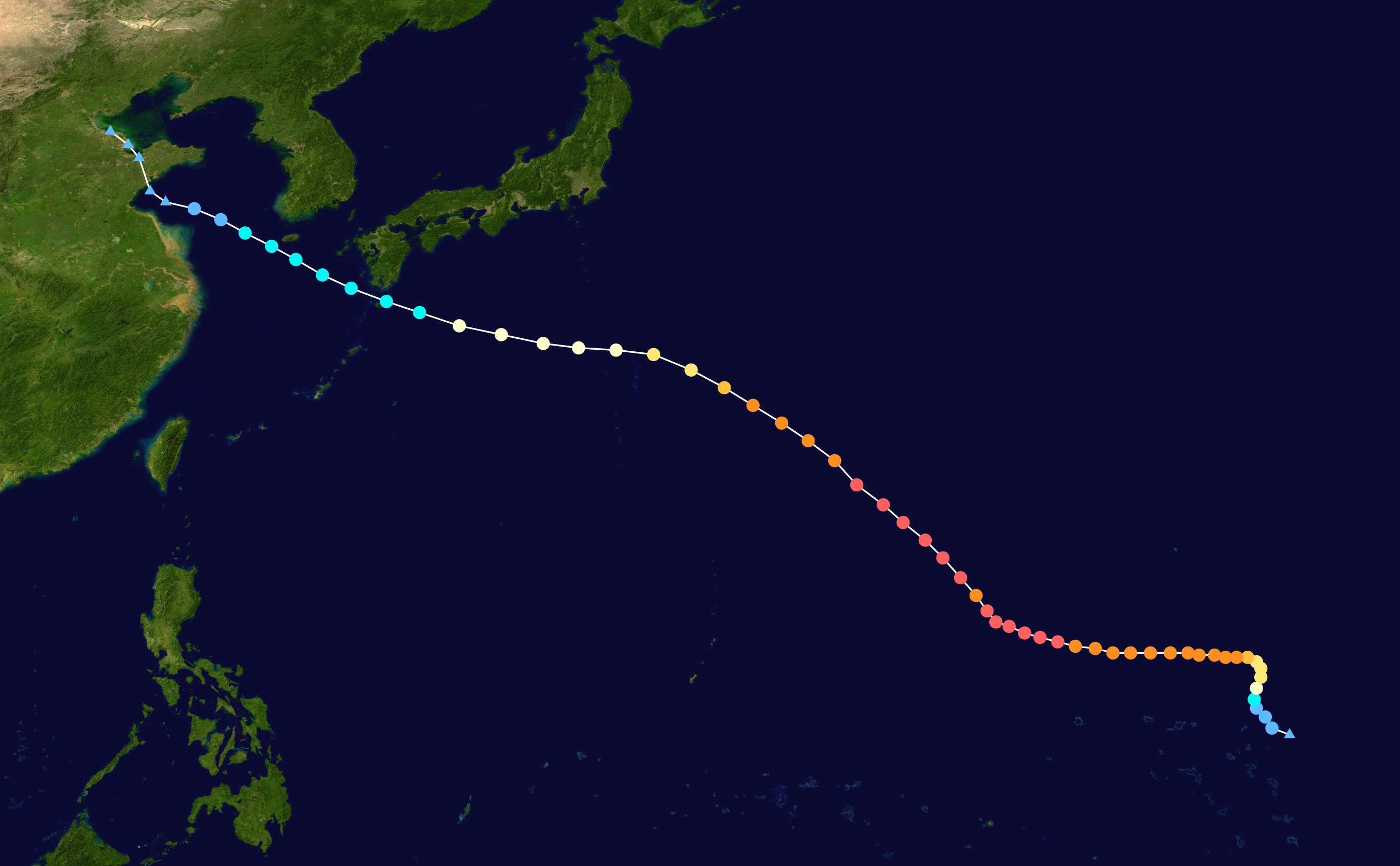 Typhoon Fengshen 2002 track. Uses the color scheme from the Saffir-Simpson Hurricane Scale.